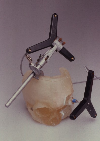 Stereolithographic model of the skull (with infrared transmitters)